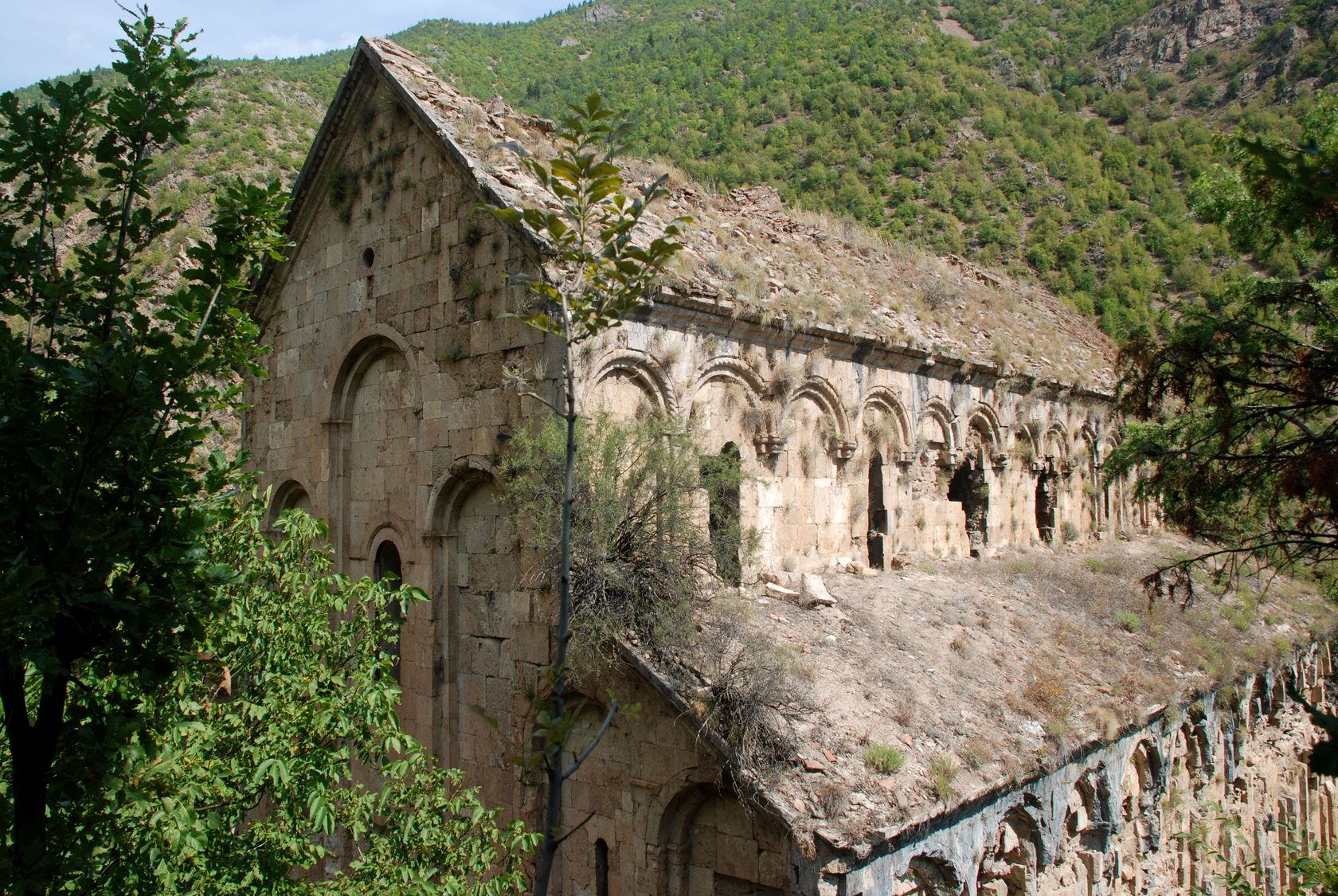 Dörtkilise, Artvin province, southwest